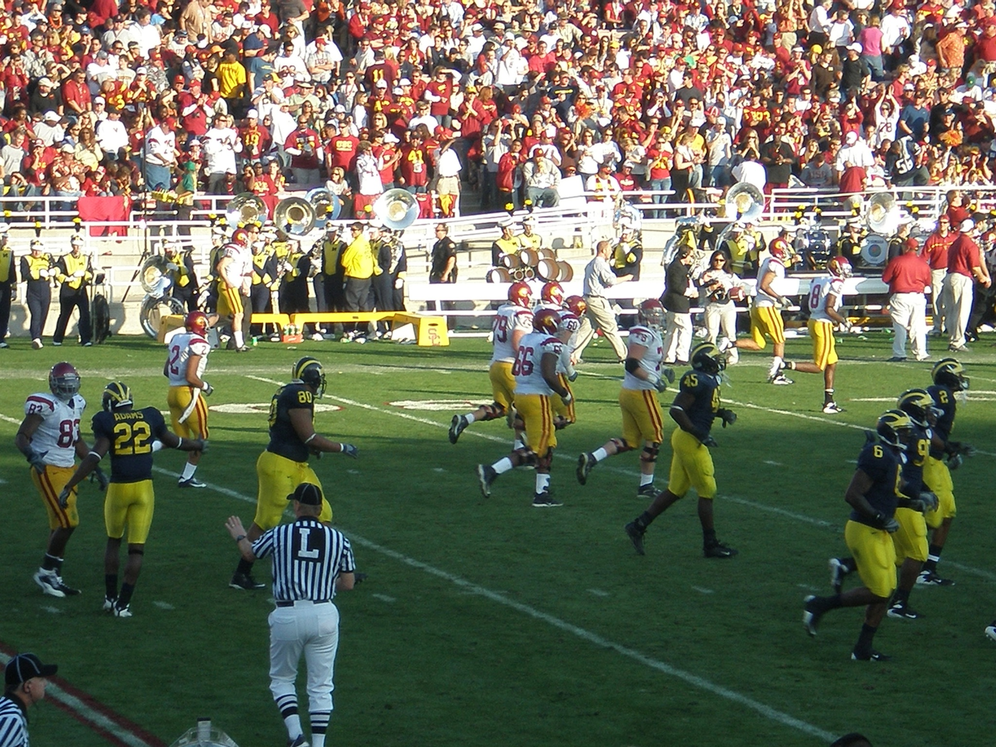 In-game scene from the 2007 Rose Bowl game in College Football between the University of Southern California and the University of Michigan; January 1, 2007